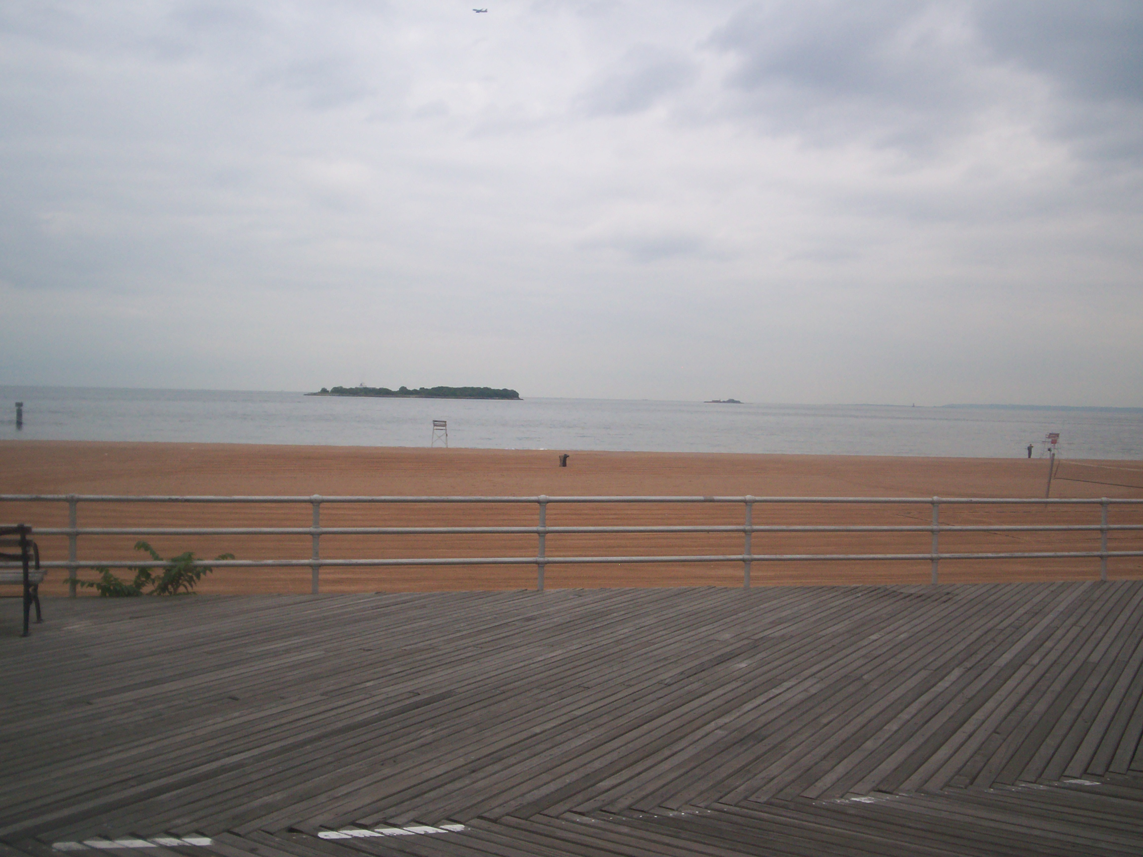 Hoffman Island; and to the right, Swinburne Island as seen from the pier at South Beach, Staten Island in 2007. The photo was taken from the pier behind the Vanderbilt restaurant on June 14, 2007 at 6:02 pm at 40.589144,-74.066514